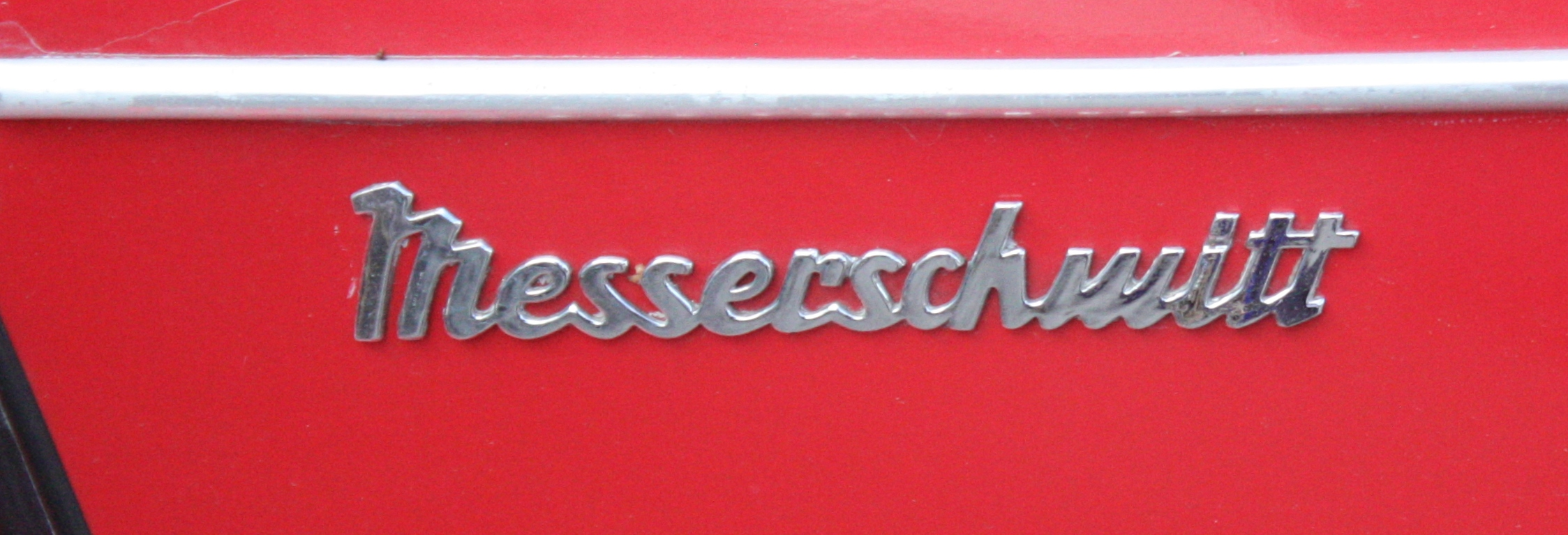 Messerschmitt Kabinenroller KR200 Red, Photographed at Kasvihuoneilmiö, National road 110, Finland 2013